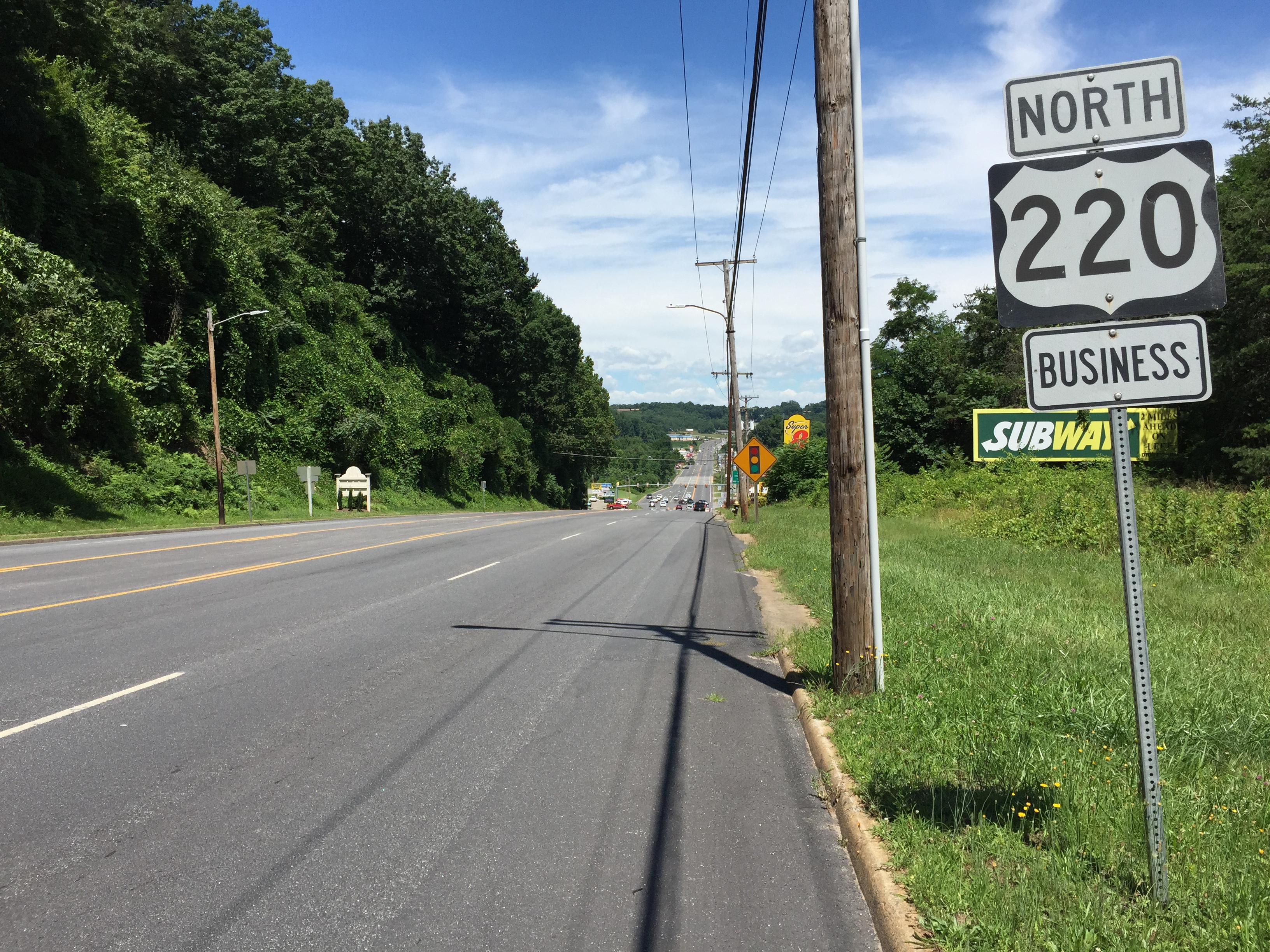 View north along U.S. Route 220 Business (Memorial Boulevard) between Harris Court and Commonwealth Boulevard in Martinsville, Virginia